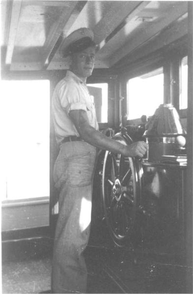 The wheelhouse of MV Joyita in 1942, when she was in US Navy service.